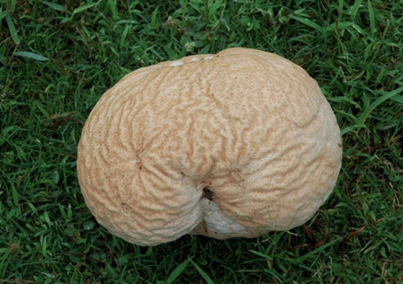 Calvatia craniiformis, a beautiful mushroom found during rains in Mulshi, Pune, Maharashtra, India